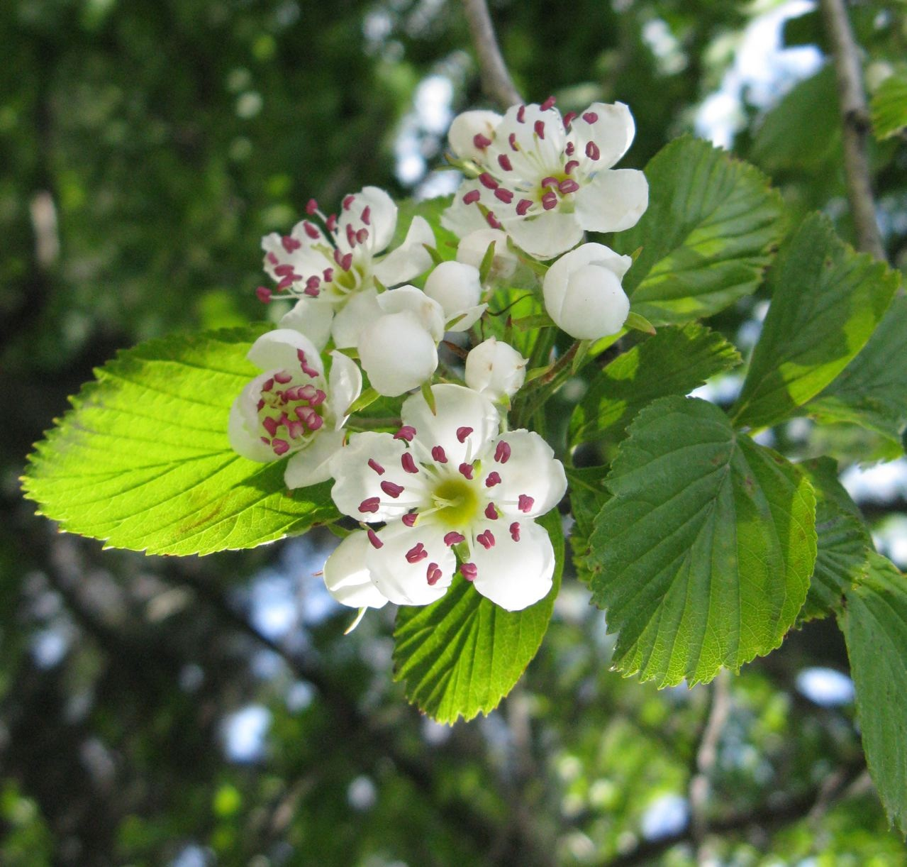 Wild tree, Ontario, Canada, a red-anthered form of this species.